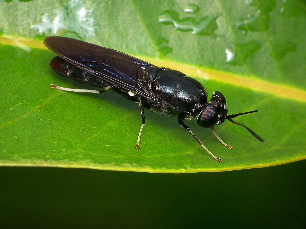 Taken in Brisbane, Queensland, Australia.